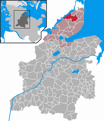 Locator maps of municipalities in Schleswig-Holstein - District Rendsburg-Eckernförde